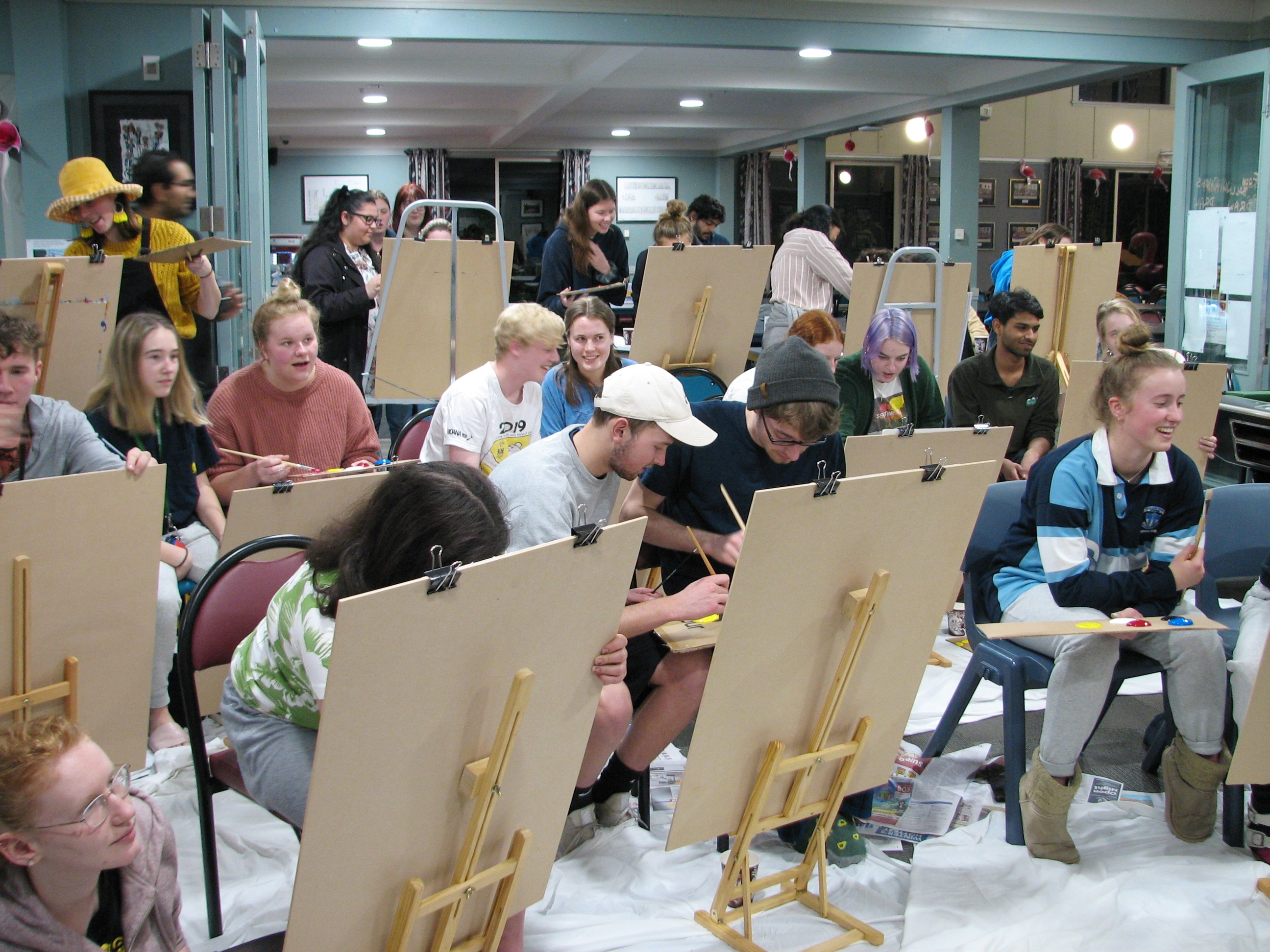 Photograph of CFC residents portrait painting